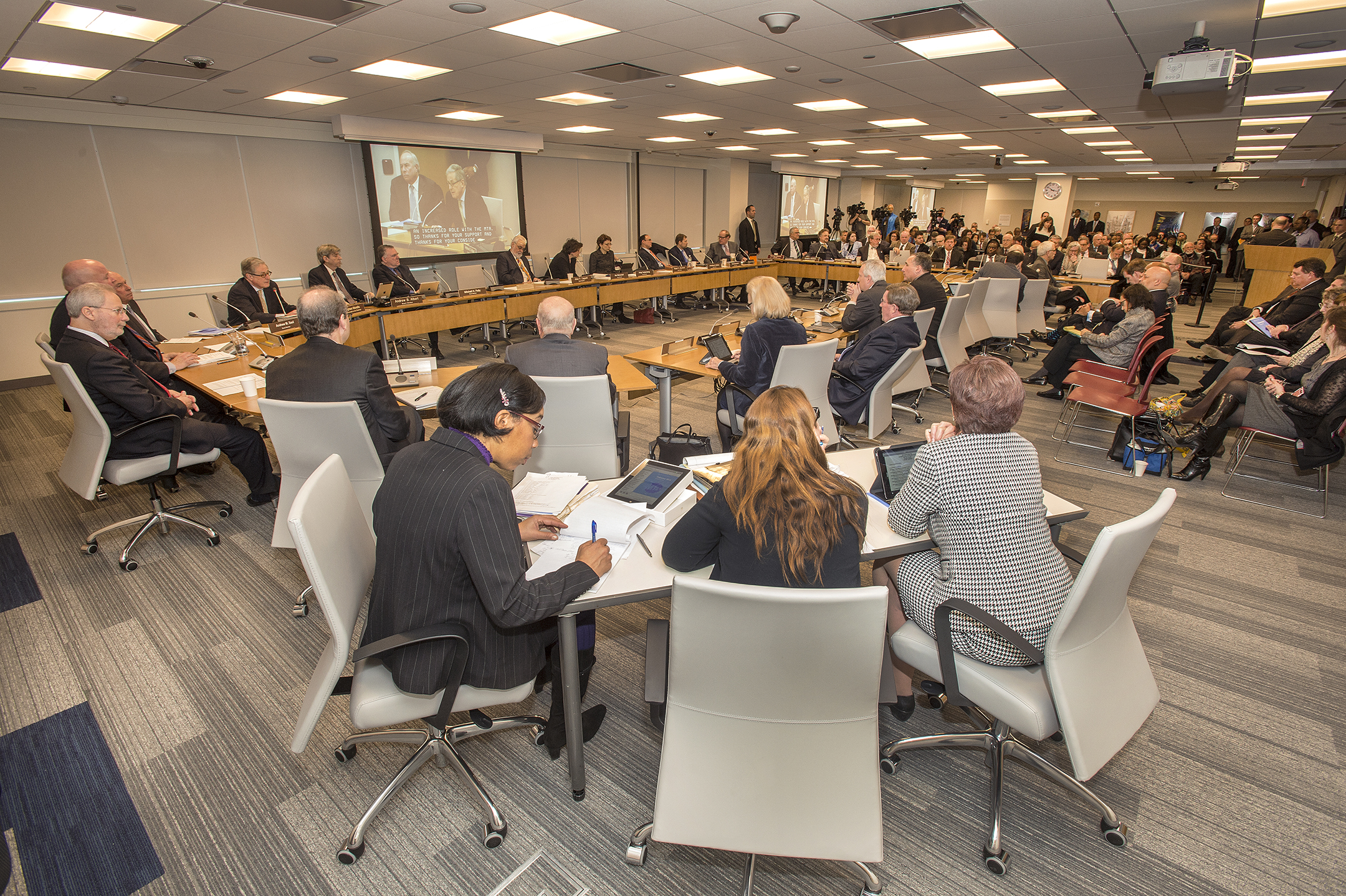 MTA officials and board members attend Wednesday's first board meeting at the new board room at 2 Broadway. Photo: Metropolitan Transportation Authority / Patrick Cashin MTA Unveils Plaque to Commemorate First Chairman William Ronan